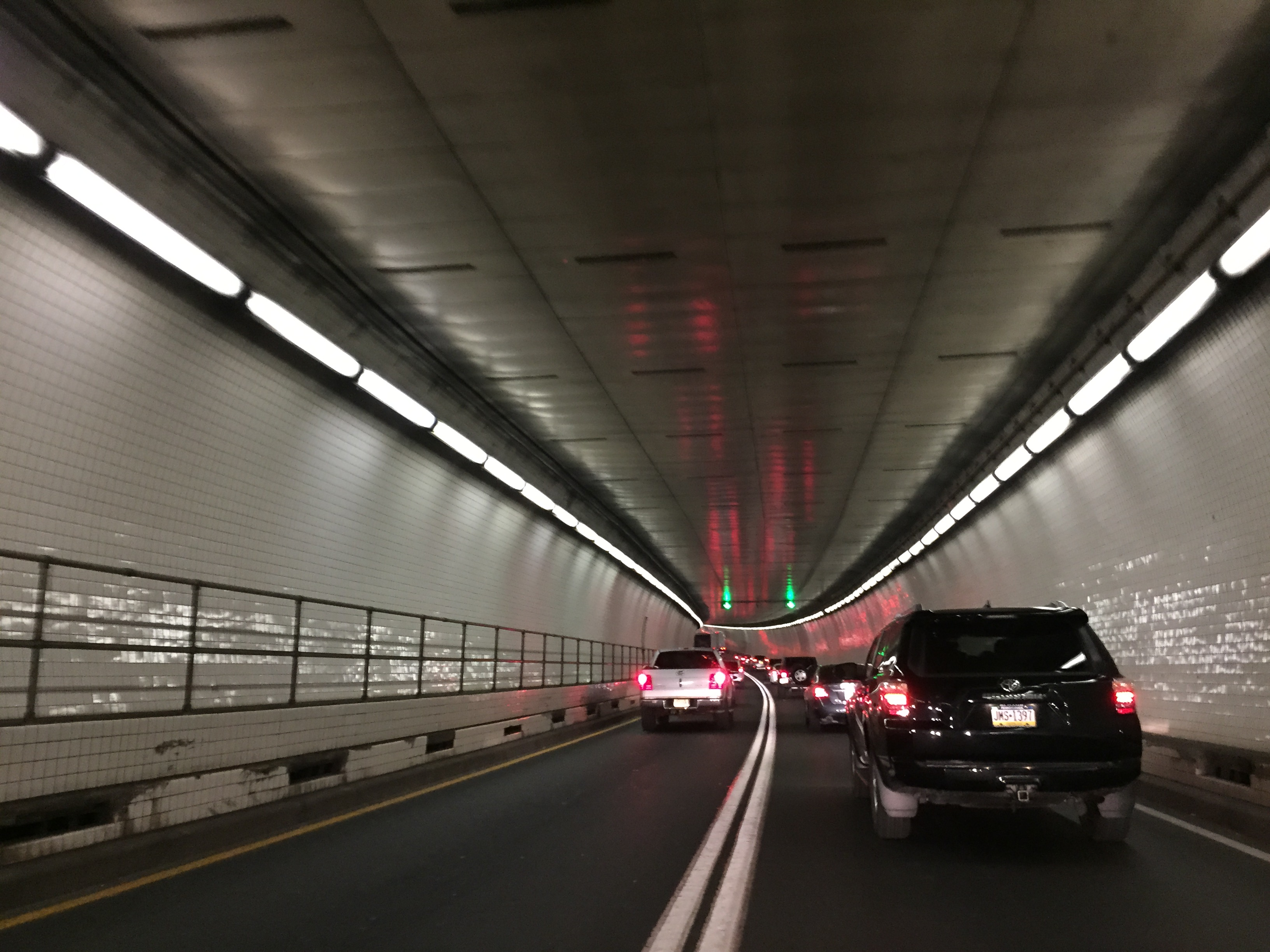 View north along Interstate 95 (Fort McHenry Tunnel) in Baltimore City, Maryland